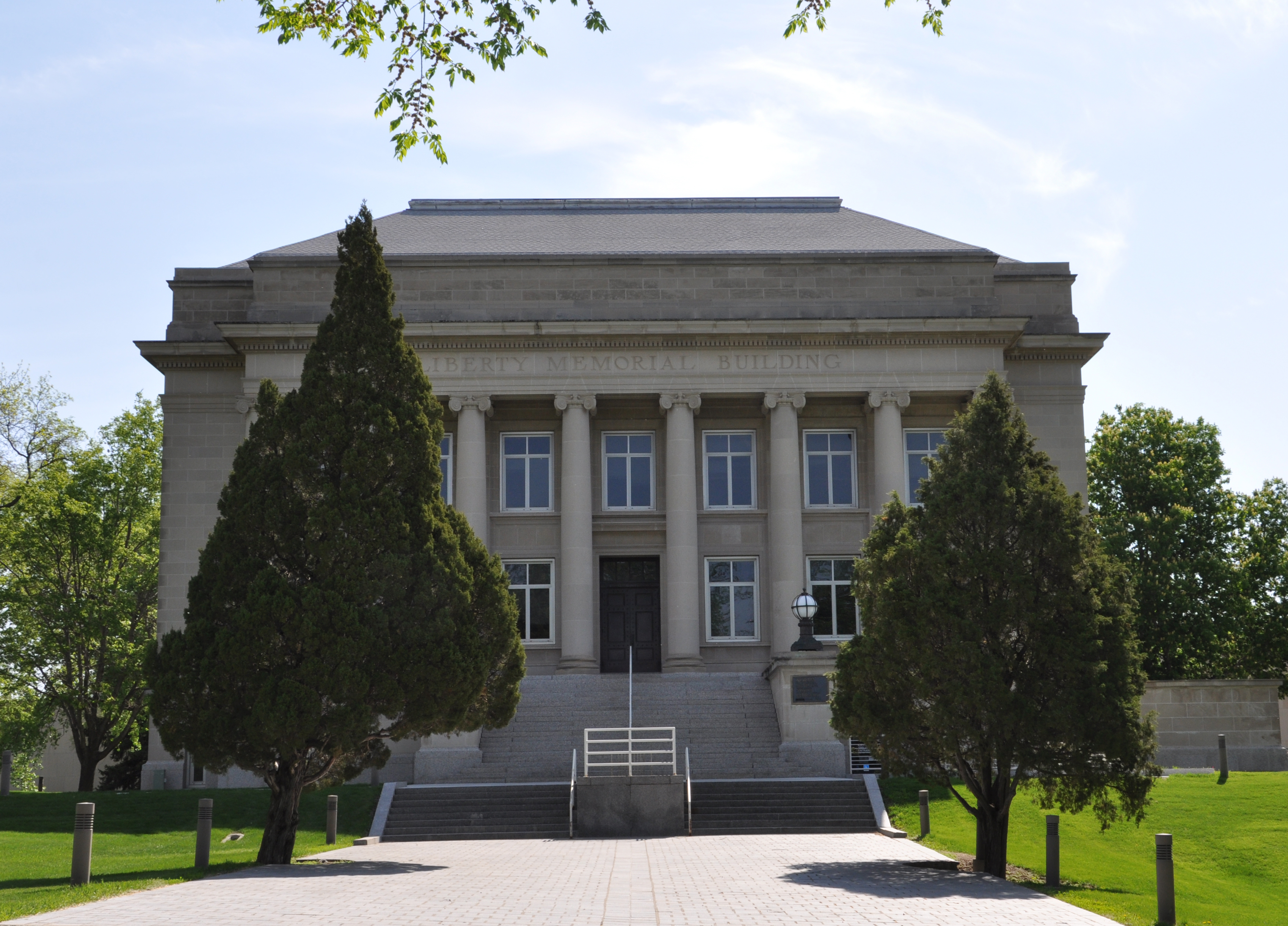 North Dakota State Library, which is housed in Liberty Memorial Building, in Bismarck, North Dakota, United States.